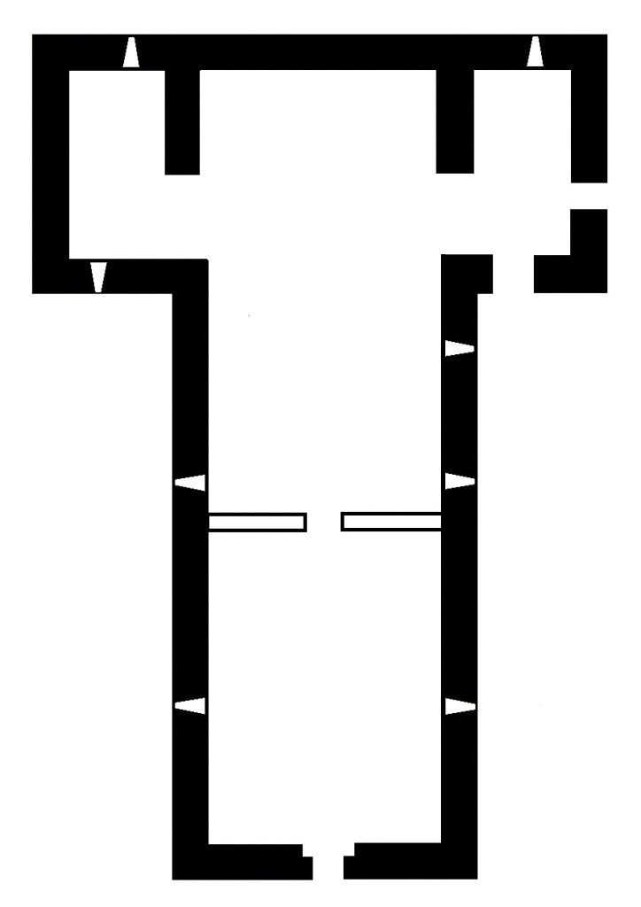 Plan Monastery Montecristo Island